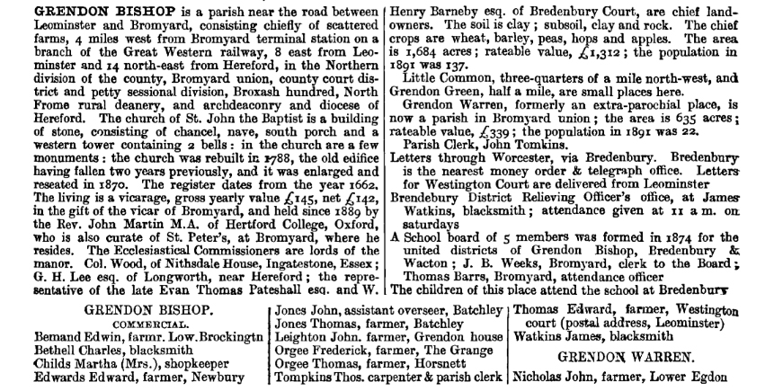 Grendon Bishop in Herefordshire, England. in Kelly's Directory of Herefordshire and Shropshire 1895